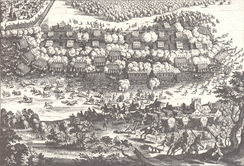 Battle of Fleurus in 1622.